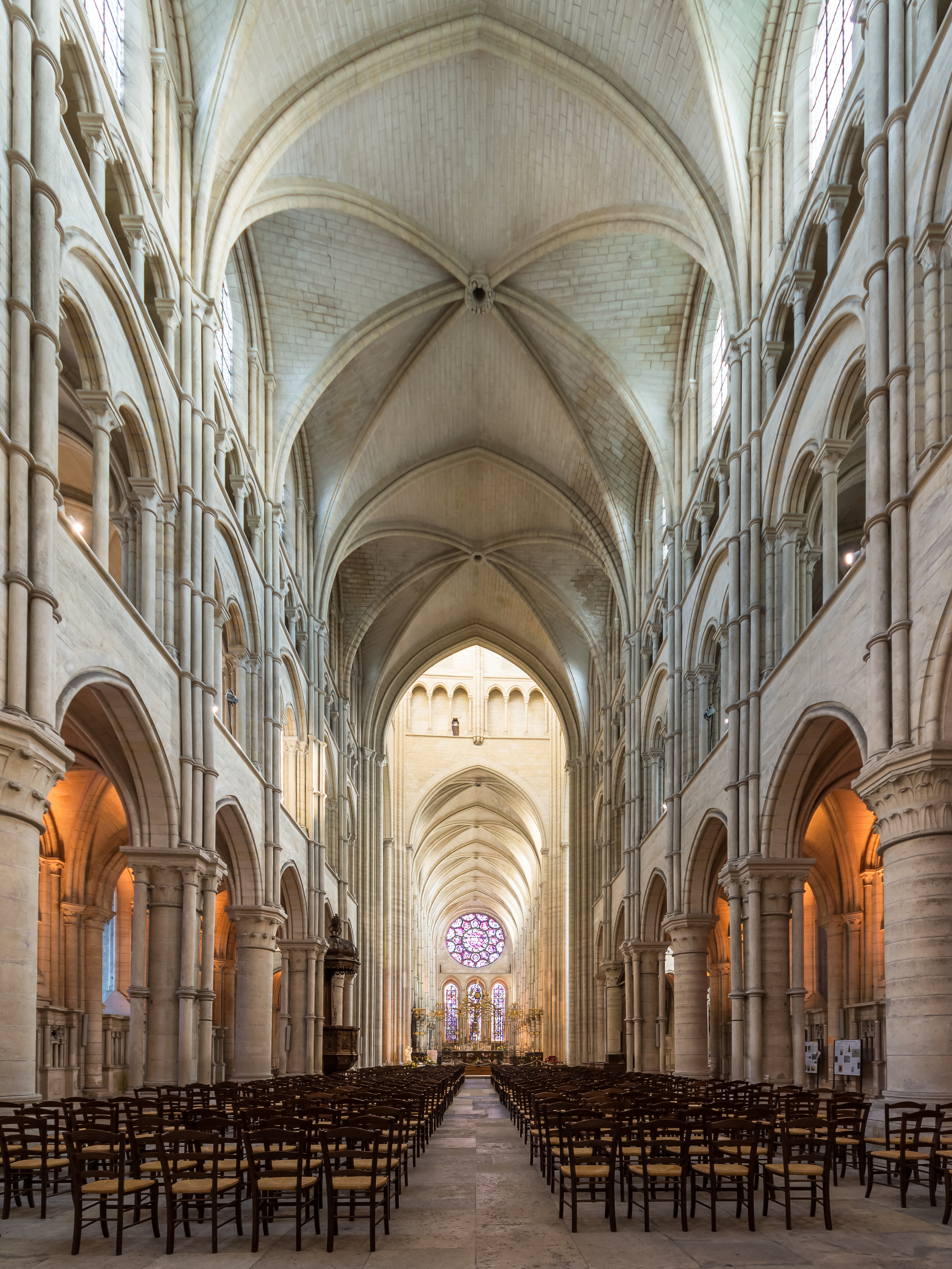 Interior of Laon Cathedral Notre-Dame, Picardy, France It is indexed in the Base Mérimée, a database of architectural heritage maintained by the French Ministry of Culture, under the references PA00115710 and cathédrale .